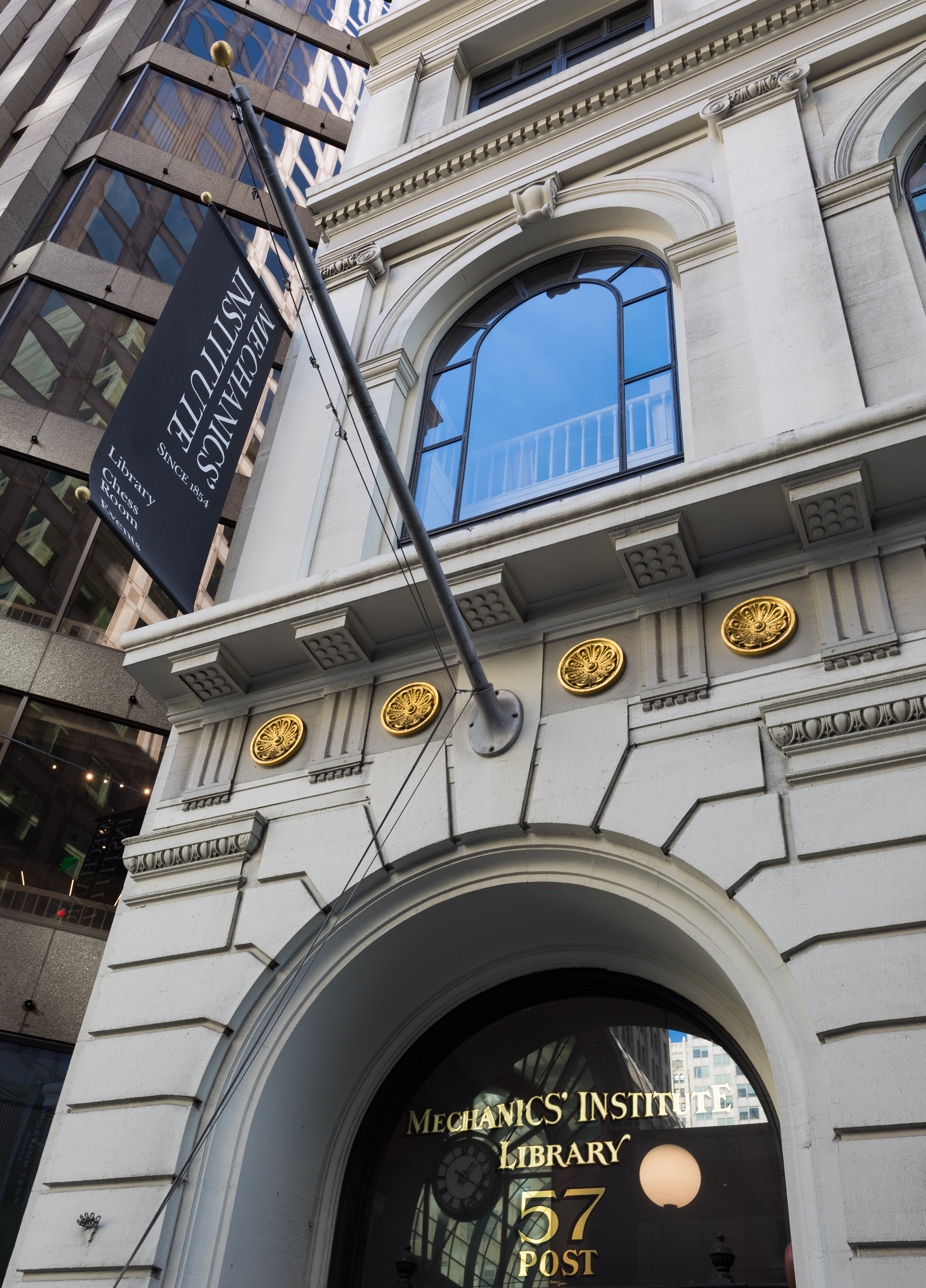 Exterior of the San Francisco Mechanics’ Institute in January 2020